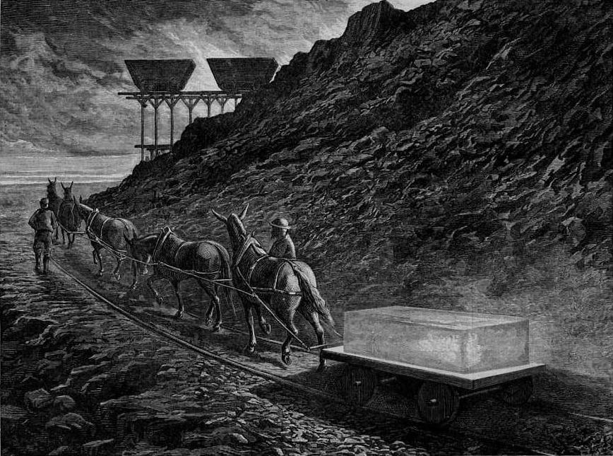 The Manufacture of Iron -- Carting Away the Scoriæ (slag), a wood engraving drawn by Jules Tavernier and Paul Frénzeny, published in Harper's Weekly, November 1, 1873.